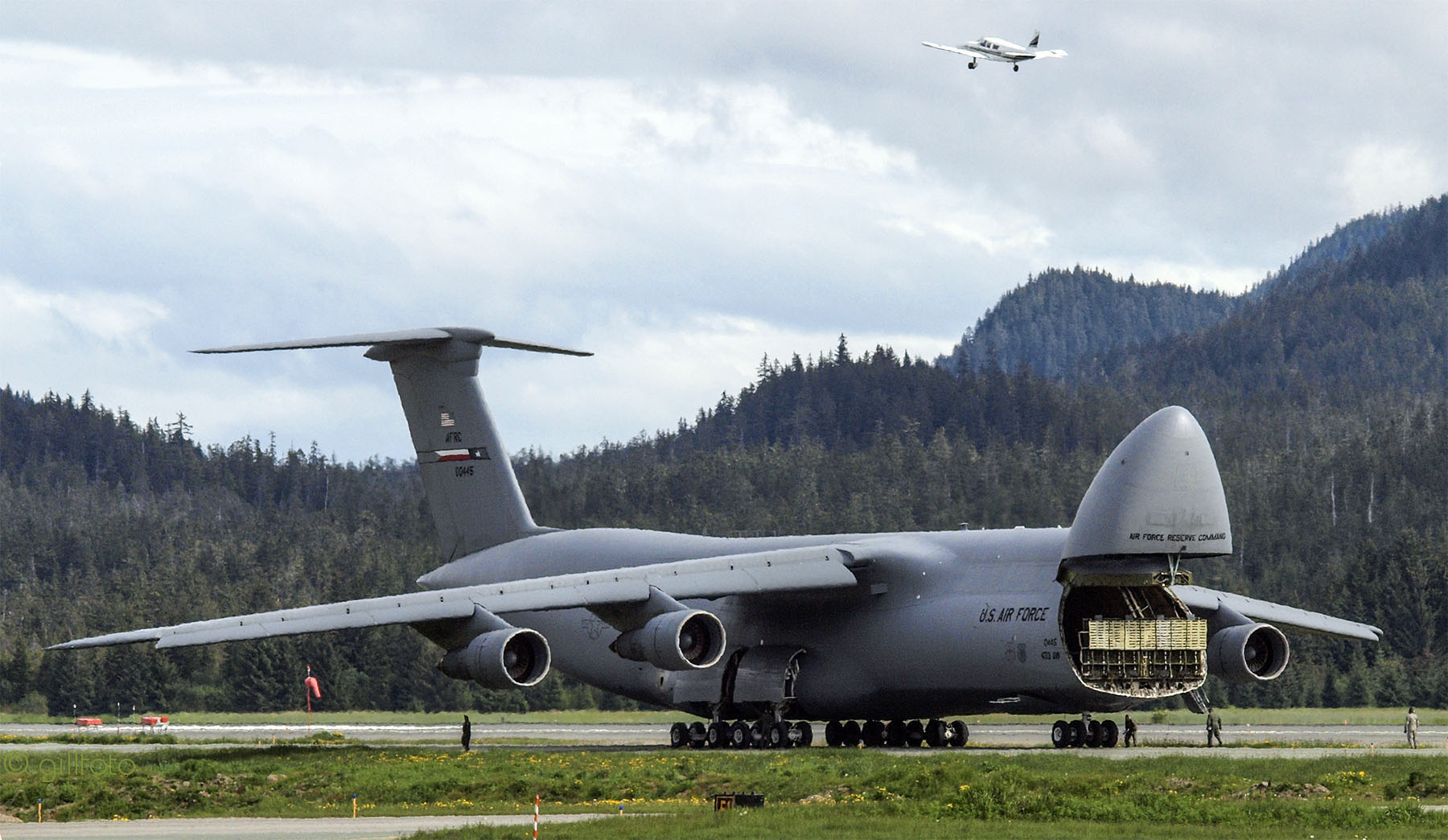 USAF C5A Galaxy with loading doors open at Juneau International Airport, Alaska